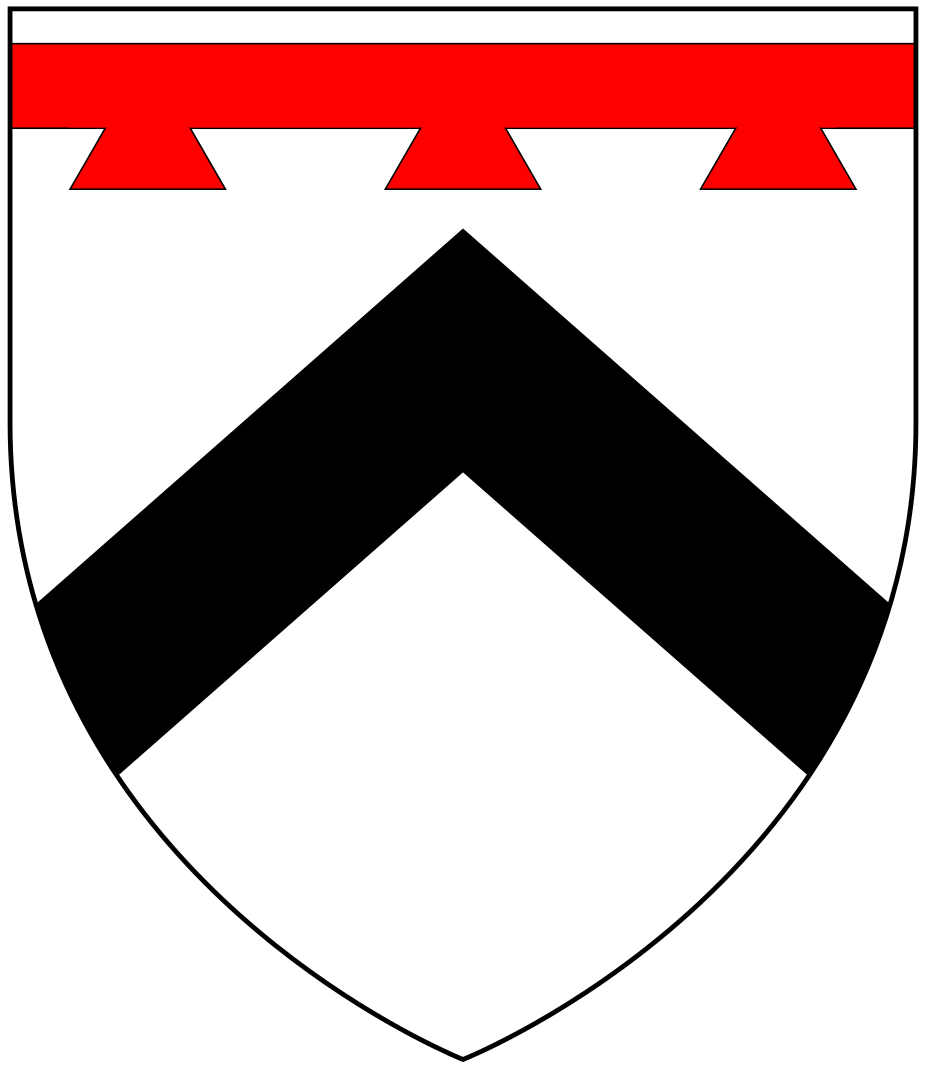 Arms of Prideaux family of Devon & Cornwall: Argent, a chevron sable in chief a label of three points gules (Vivian, Heraldic Visitations of Devon, 1895, p.616)